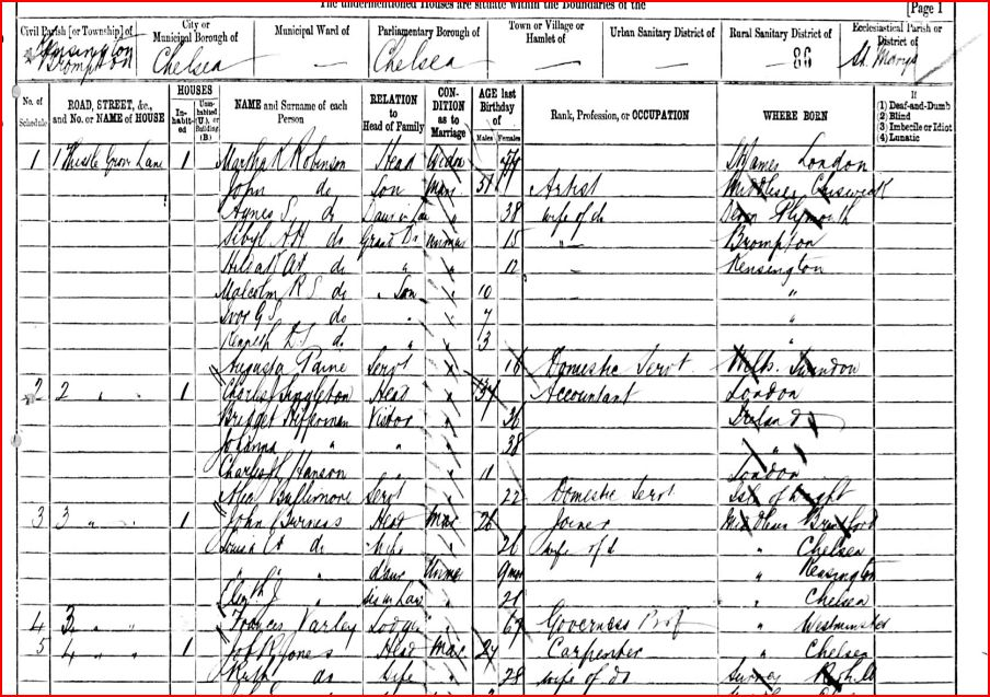 1881 Census (England) entry showing Joanna Hiffernan's address at Thistle Grove Lane